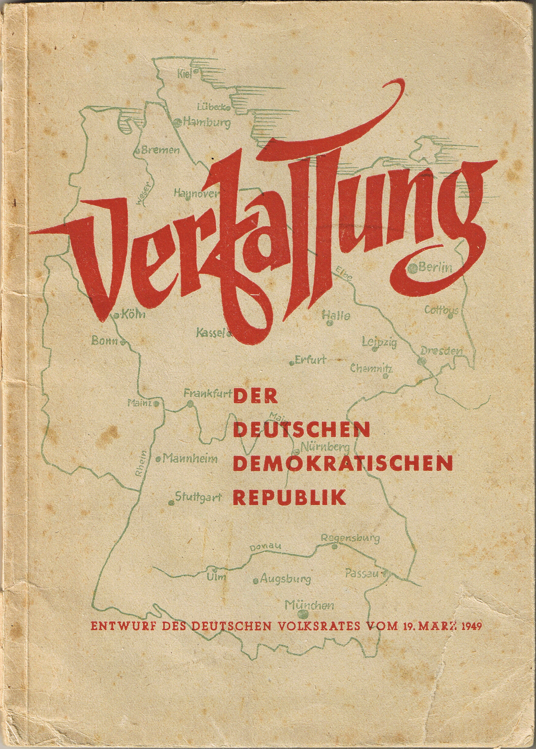 Basic Law for the German Demokratic Republic (GDR), 1949